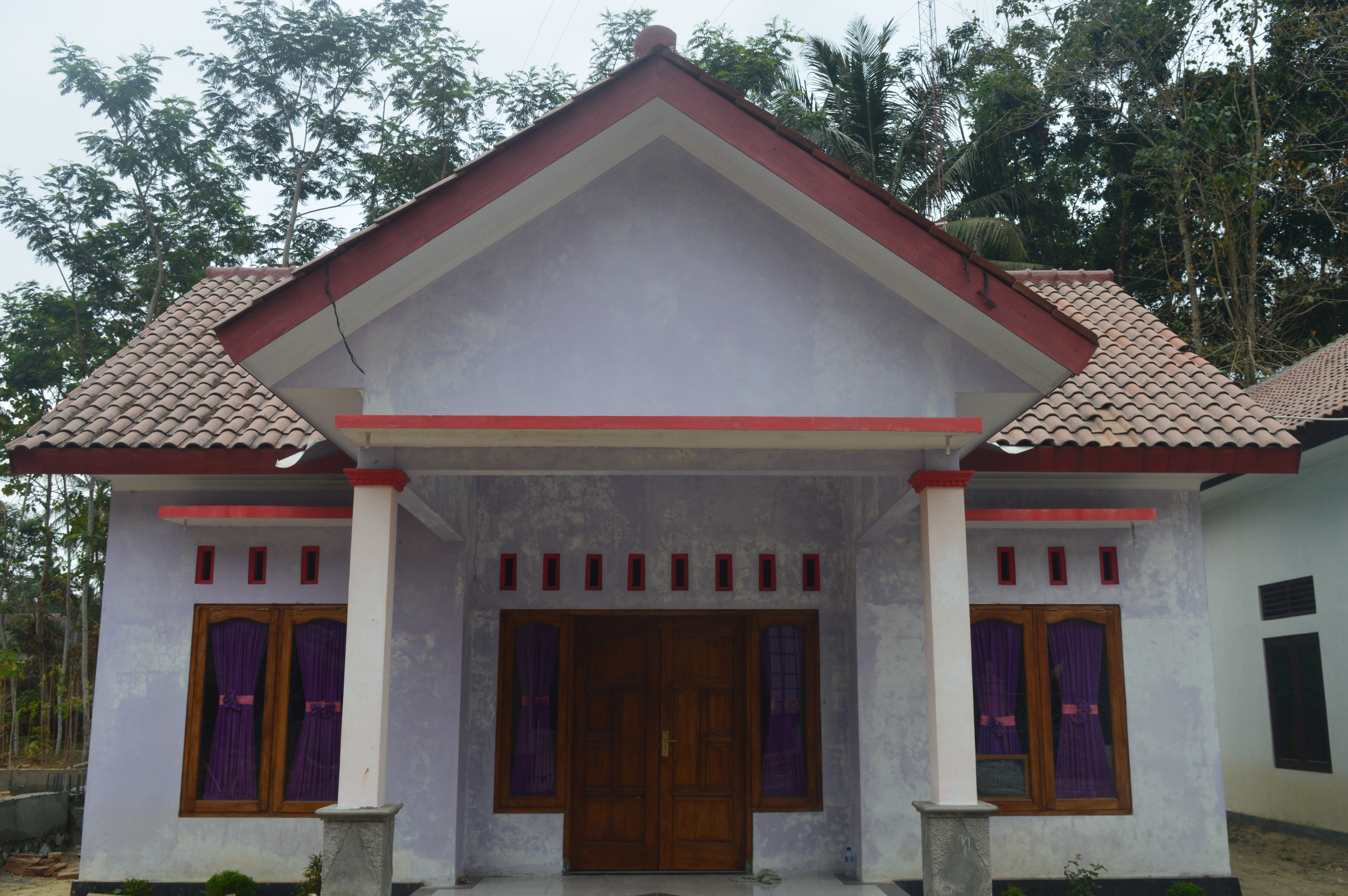 Poliklinik desa